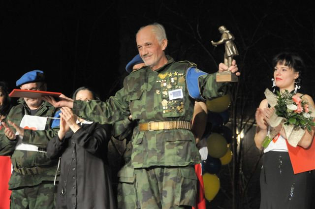 Image of winer of the Statuette of Joakim Vujic